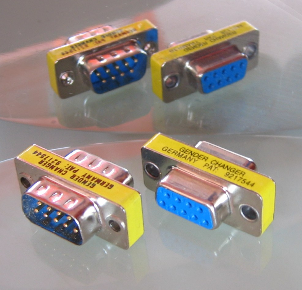 D-Sub DE-9 Gender Changer